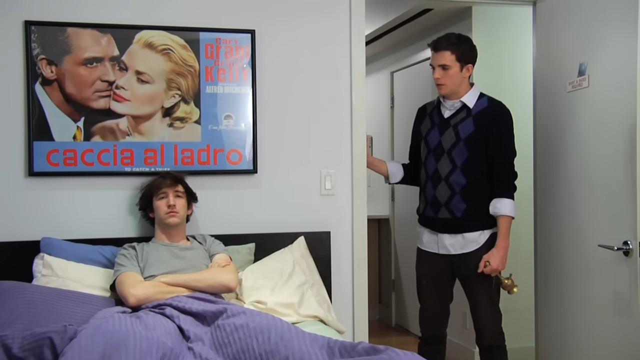 A screenshot from the video short "The Coach" by comedy duo BriTANicK featuring both members of the group. Left is Brian McElhaney, right is Nick Kocher.